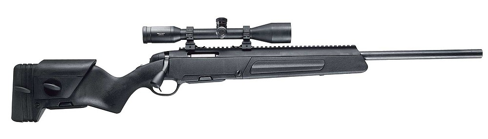 The Steyr Elite with a 5 round magazine inserted